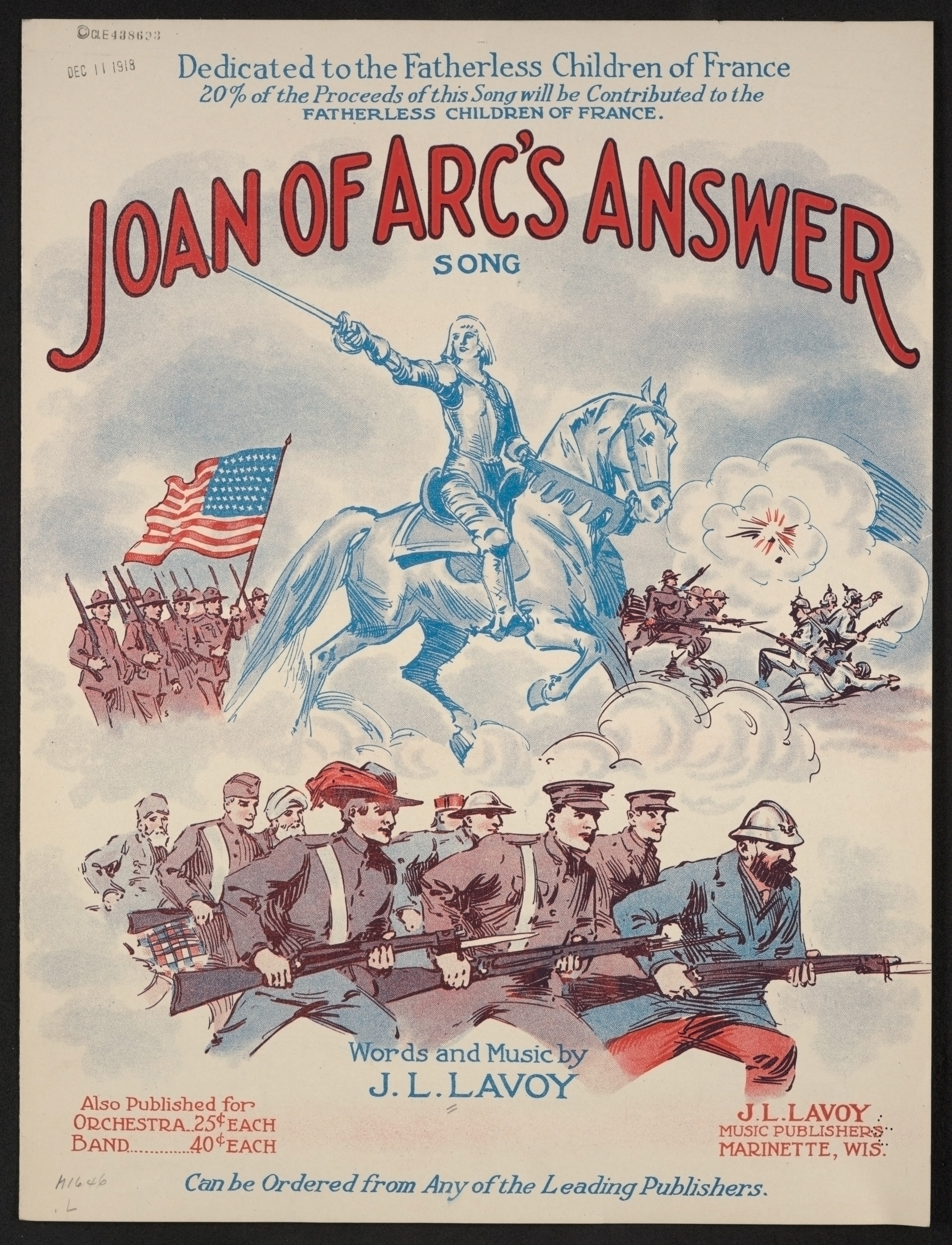 Cover of sheet music for "Joan of Arc's Answer Song"